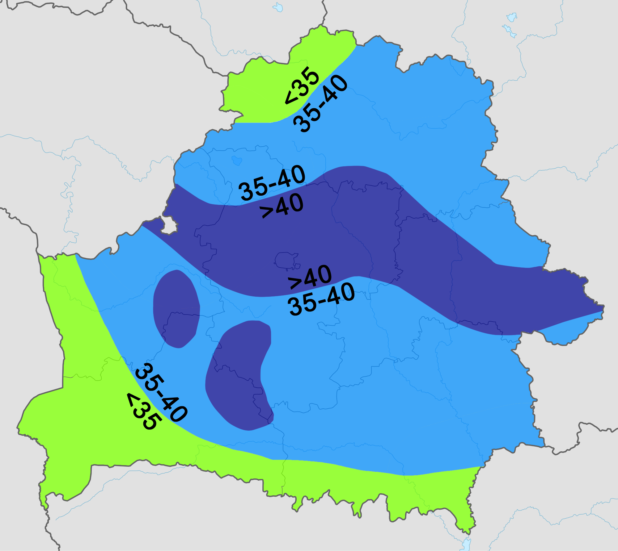 Average precipitation in Belarus in January (in millimeters). Data according to Belarusian Encyclopedia (Vol. 18, Part 2, Minsk, 2004, p. 43)